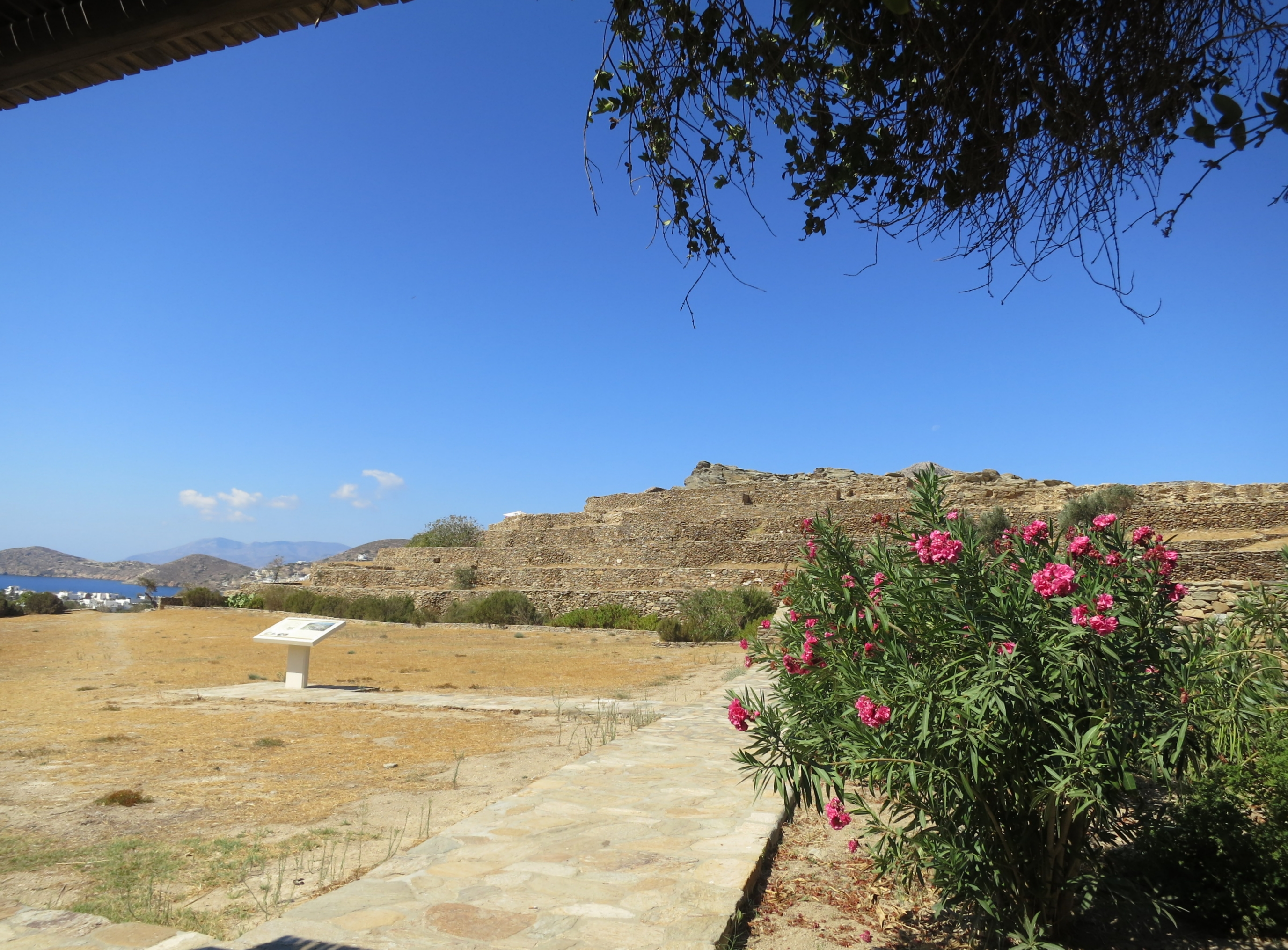 Early Cycladic settlement Skarkos in Ios form the entrance to the complex.